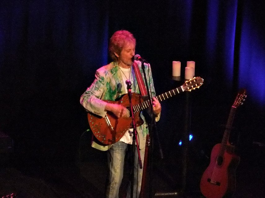 Jon Anderson-Voice of 70s Progressive Rock Band "Yes" performing at the Wilbur Theater in Boston,Massachusetts USA, on March 15, 2012.